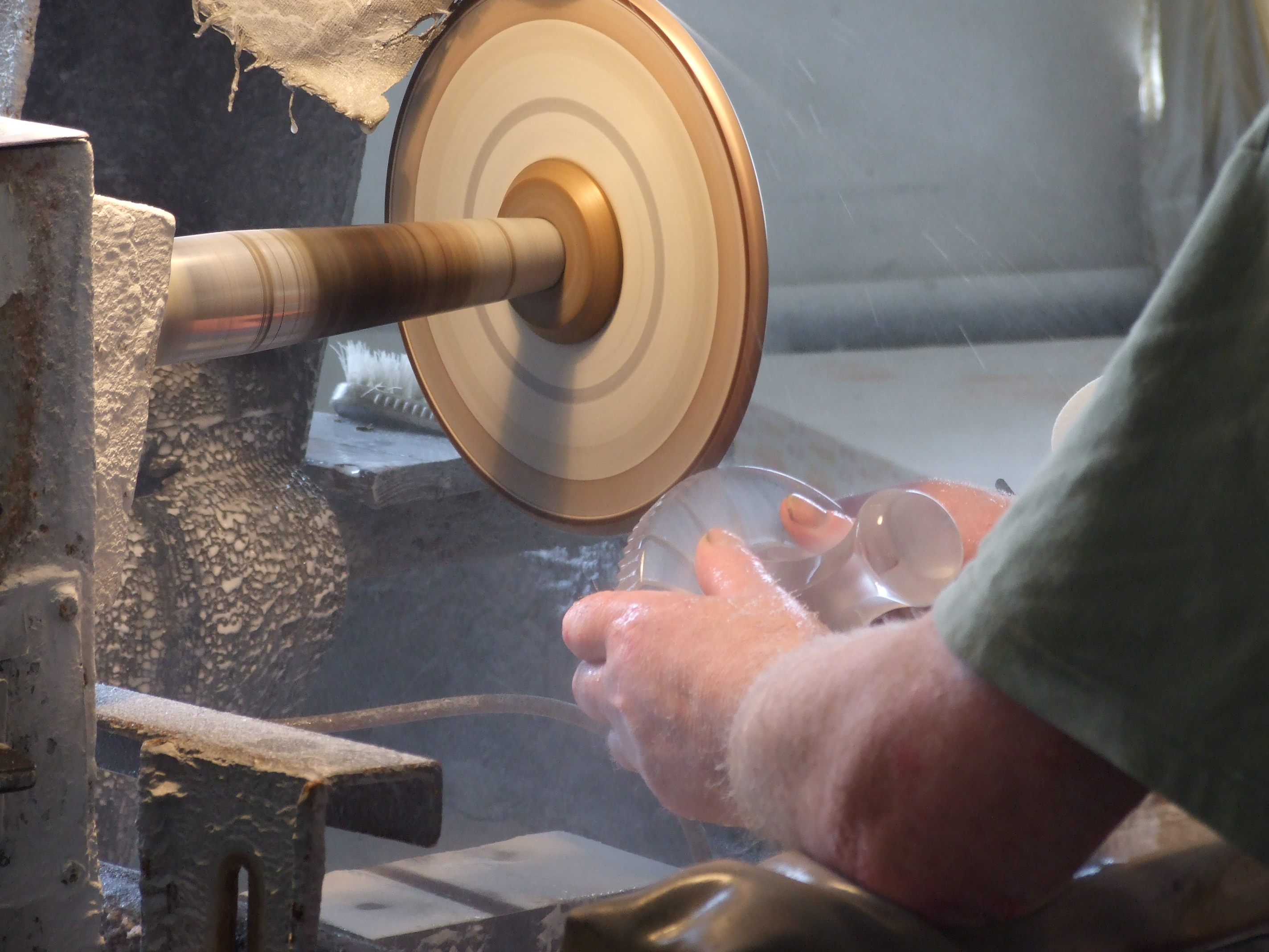 Various processes in Nižbor glass works, Central Boheminan region, CZhelp